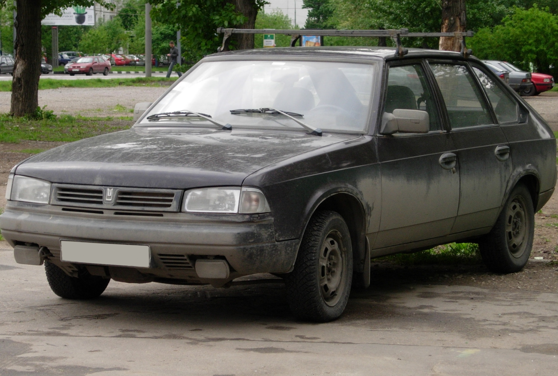 A facelifted version of M-2141 Aleko